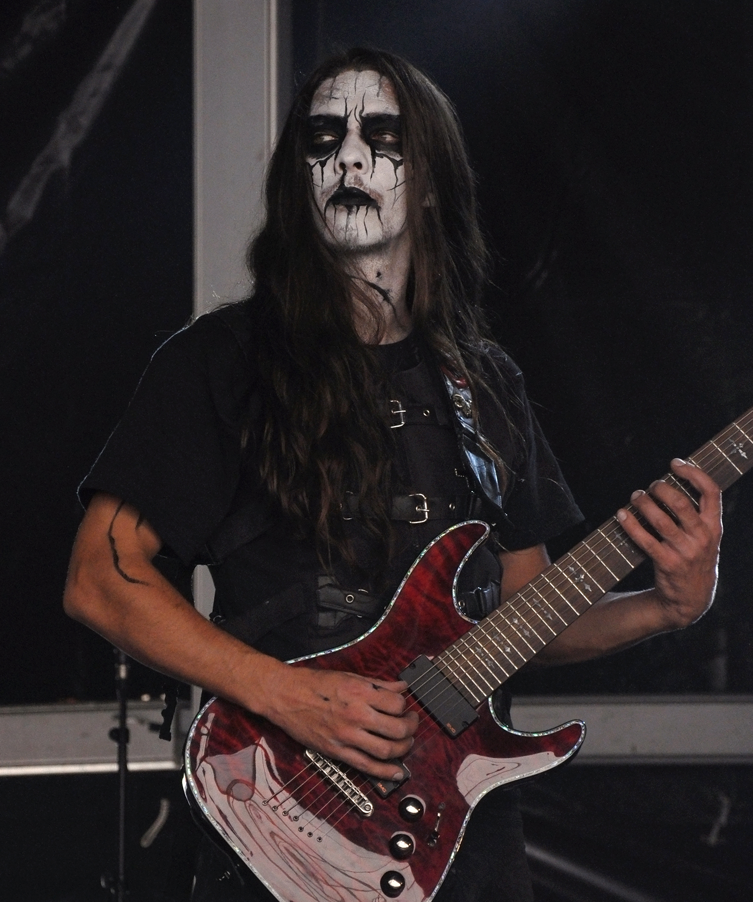 Carach Angren, a symphonic Black Metal group from the Netherlands, performing at the Metal Mean Festival (Belgium), the 22d of August 2009 : Seregor, guitar and vocals.